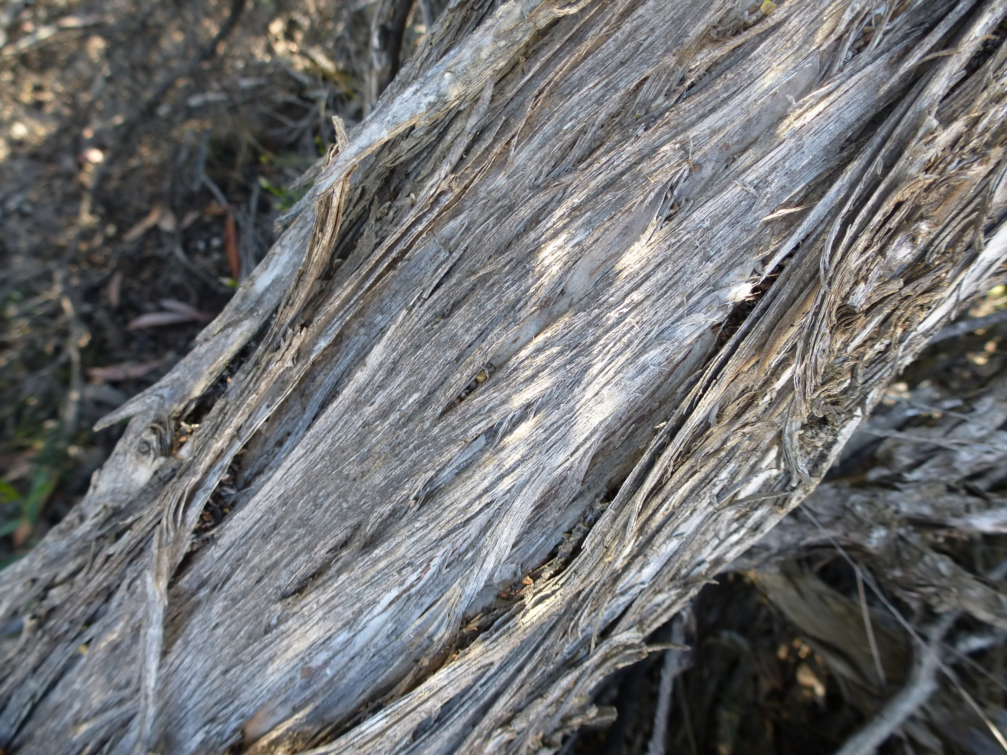 Melaleuca cucullata growing near Ravensthorpe